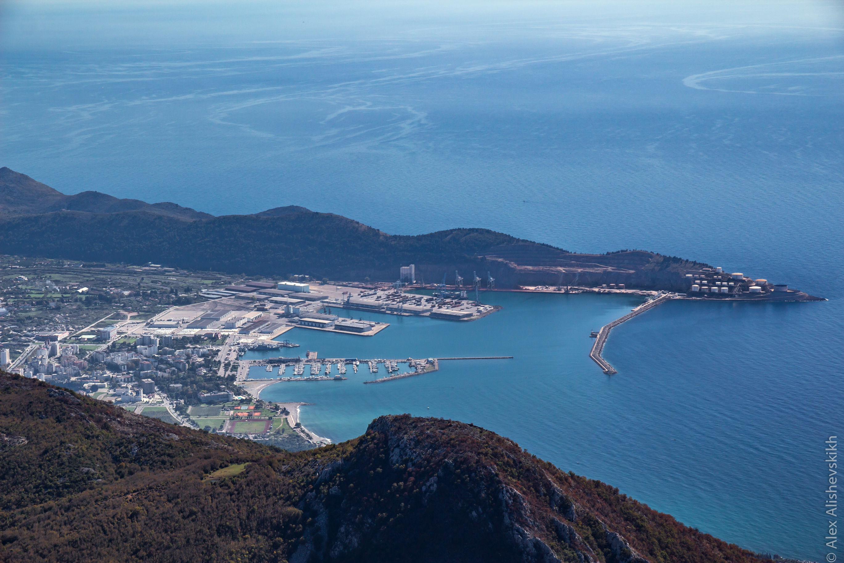 The port of Bar, view from Vrsuta mnt